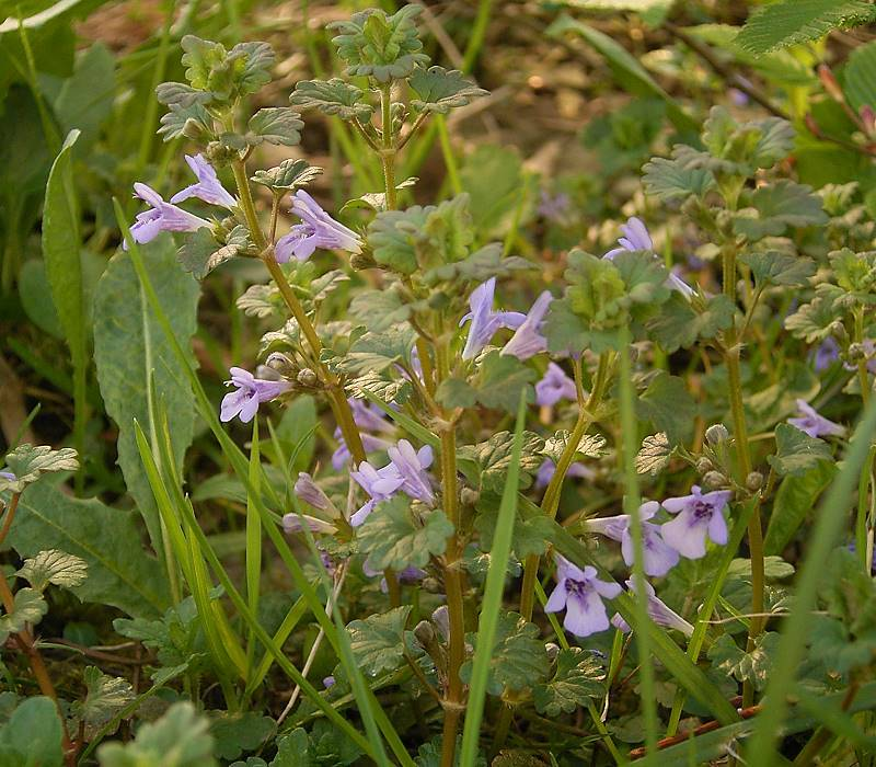 Glechoma hederacea